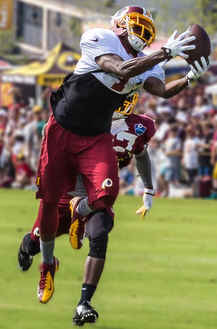 DeSean Jackson at 2014 Redskins training camp.